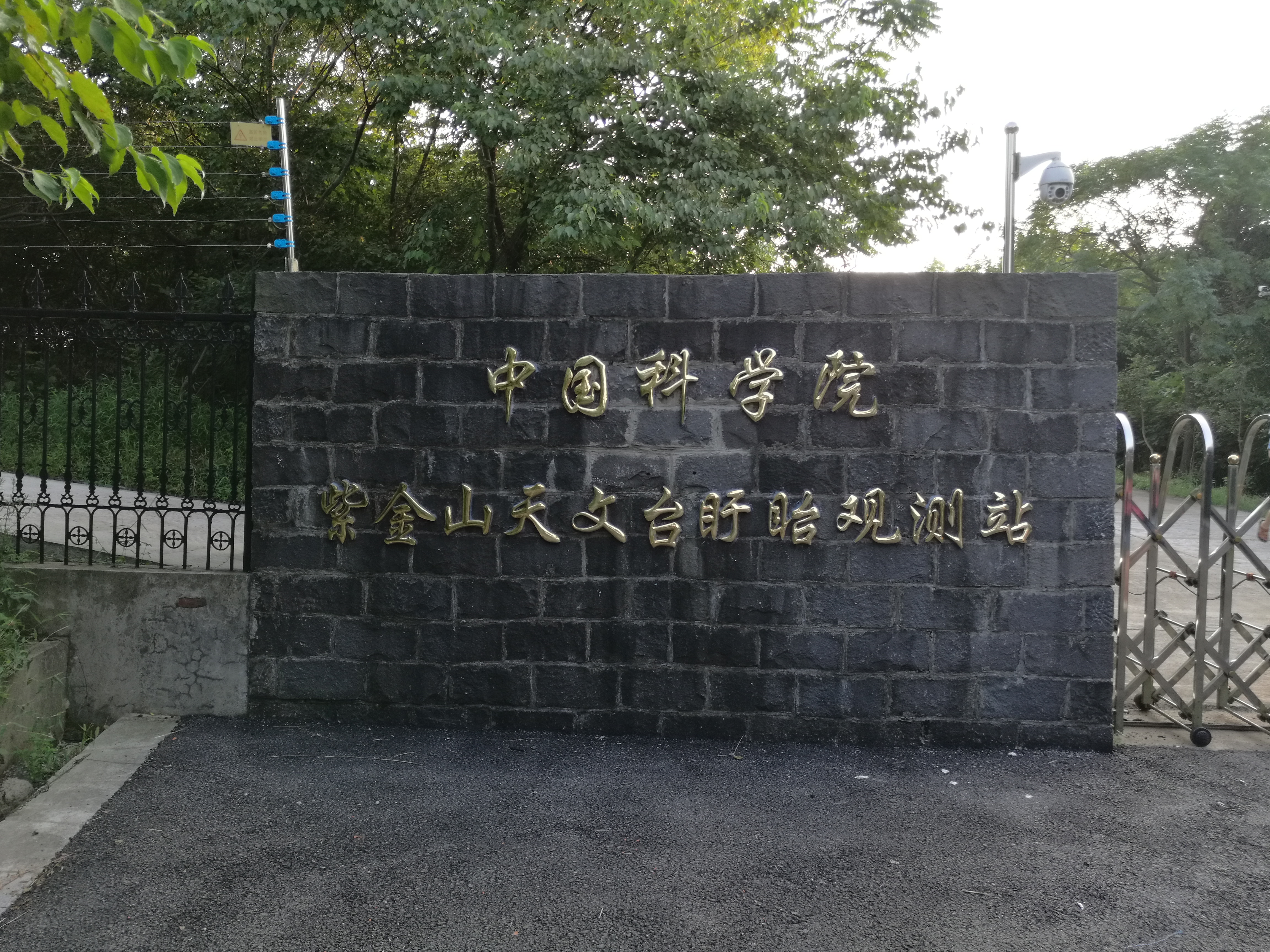 Purple Mountain Observatory - Xuyu Station Door